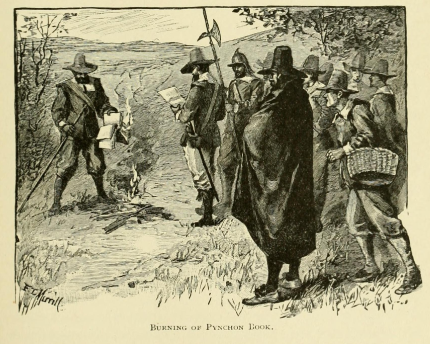 Portrayal of the burning of copies of William Pynchon's book The Meritous Price of Our Redemption by early colonists of the Massachusetts Bay Colony, who saw his book as heresy; it was the first-ever banned book in the New World and only 4 original copies are known to survive today.